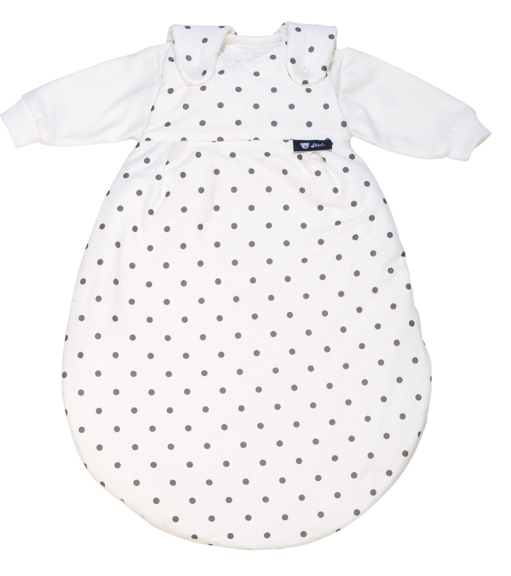 Baby Sleeping Bag